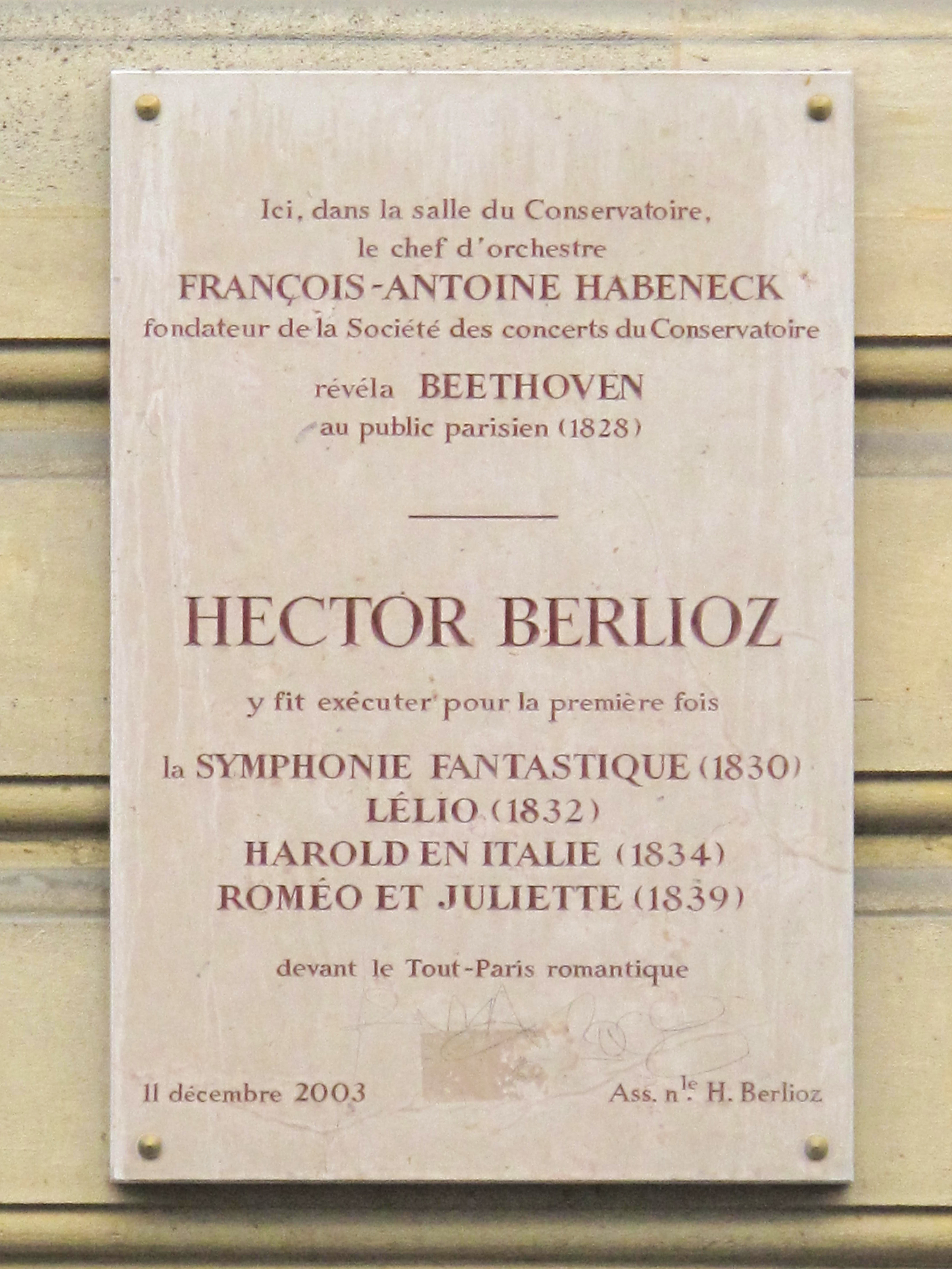 Plaque on the conservatoire de musique de Paris where Hector Berlioz let play for the first time some of his creations : 2, rue du conservatoire, Paris 9th arr.